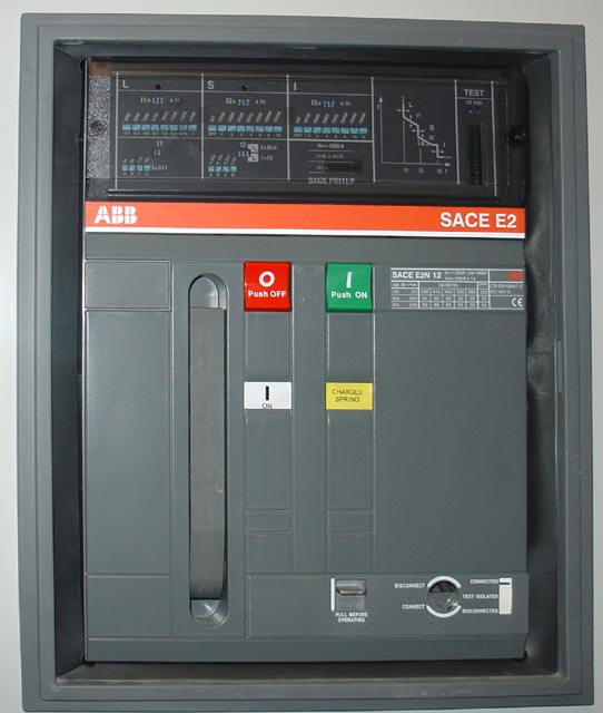 photo of withdrawable air circuit breaker rated up to 1250A. Trip characteristics are configurable by means of DIP switches.